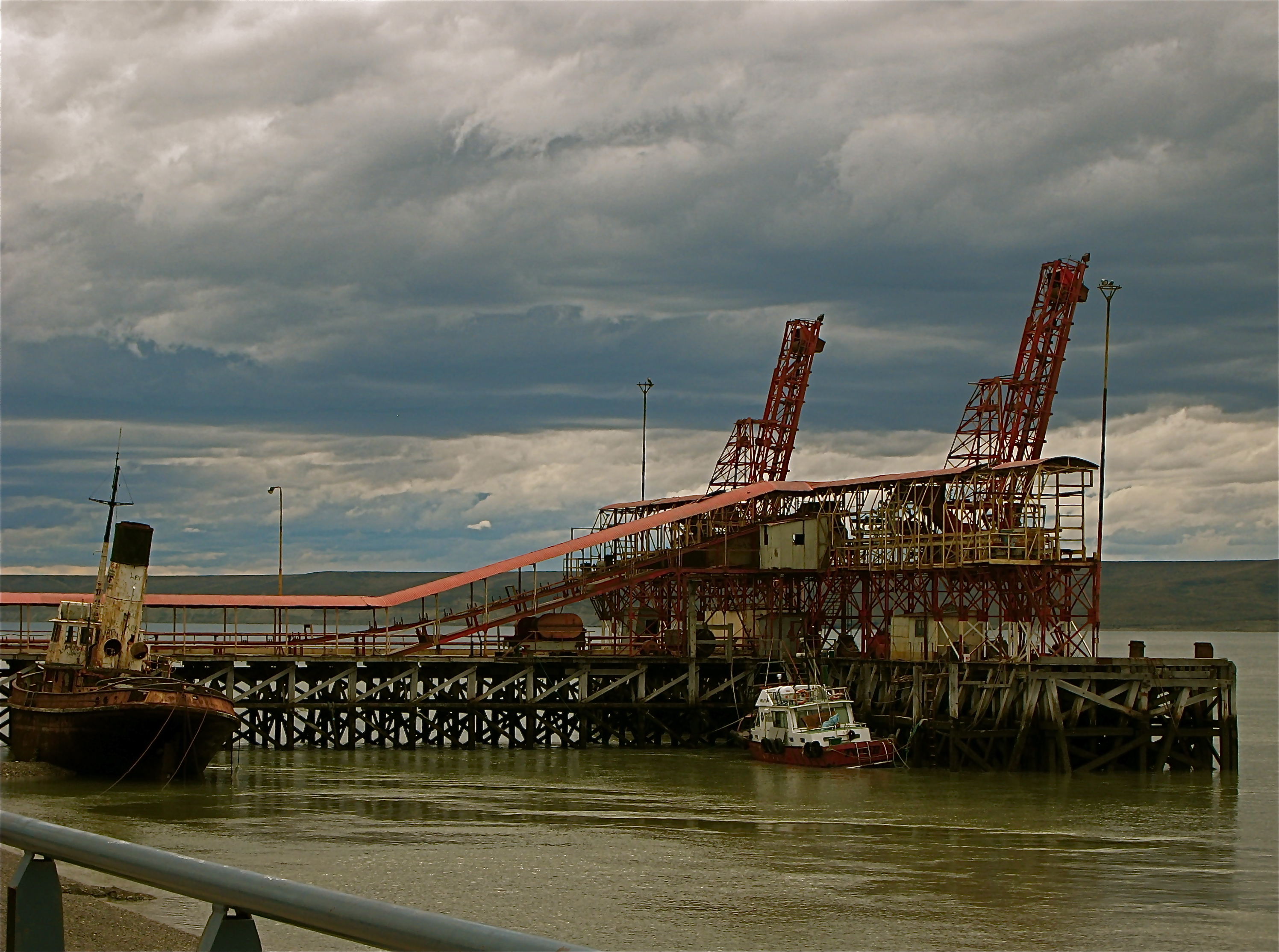 The Harbour of Rio Gallegos